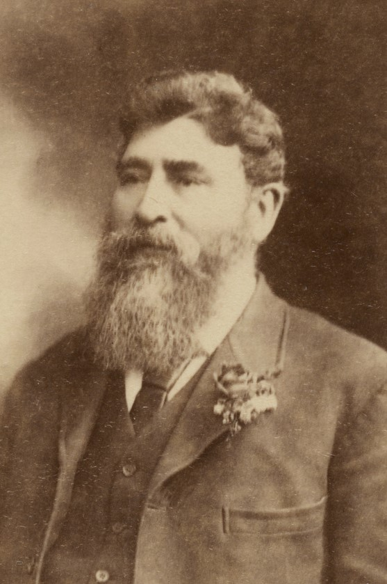 Portrait of John George Bice.